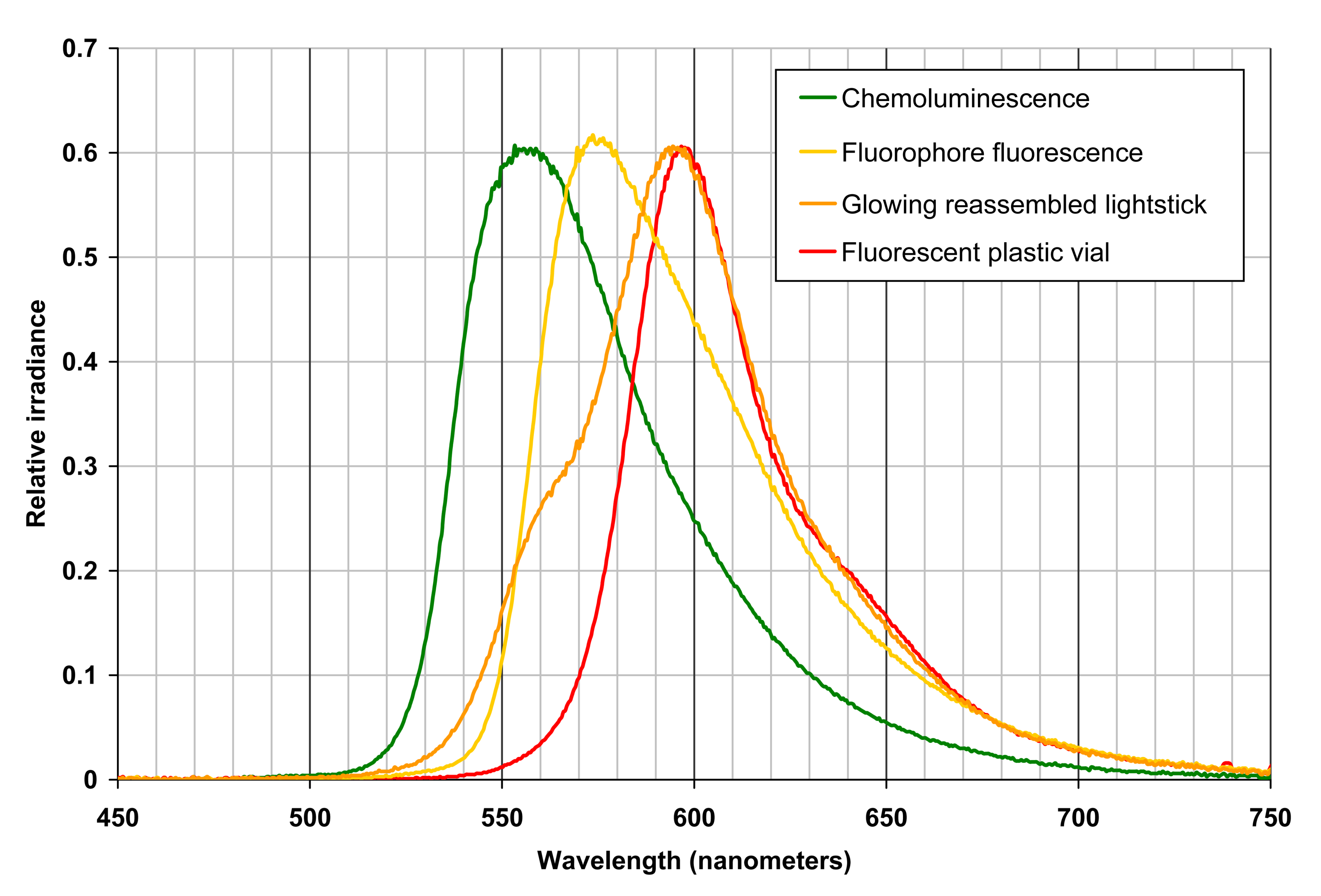 Spectral emission of chemoluminescence (green line) of mixed fluorophore and peroxide which was removed from an orange lightstick, fluorescence of liquid fluorophore in glass ampoule only (before mixing) while under black light (yellow-orange line), fluorescence of plastic outer container of orange lightstick under blacklight (red line), and spectrum of reassembled chemoluminescent lightstick (glowing liquid poured back into original orange plastic vial). This plot thus shows that the orange light from an "orange lightstick" is created by a greenish-yellow light emitting chemoluminescent liquid partially inducing fluorescence in (and being filtered by) an orange plastic container (darker orange line). All spectra are corrected for intensity response by detector and were taken by me on a high OH solarization resistant fiber optic-coupled Ocean Optics HR200 spectrometer. Data used to create graph is on the talk page in csv format. Related article: Glowstick